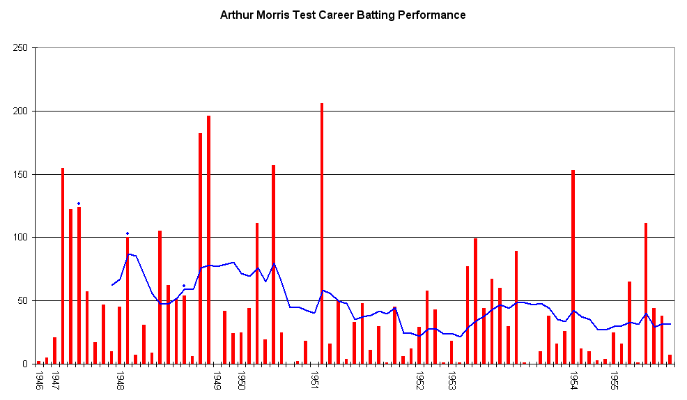 This graph details the Test Match performance of Arthur Morris. It was created by Raven4x4x. The red bars indicate the player's test match innings, while the blue line shows the average of the ten most recent innings at that point. Note that this average cannot be calculated for the first nine innings. The blue dots indicate innings in which Morris finished not-out. This graph was generated with Microsoft Excel 2002, using data from Cricinfo and Howstat